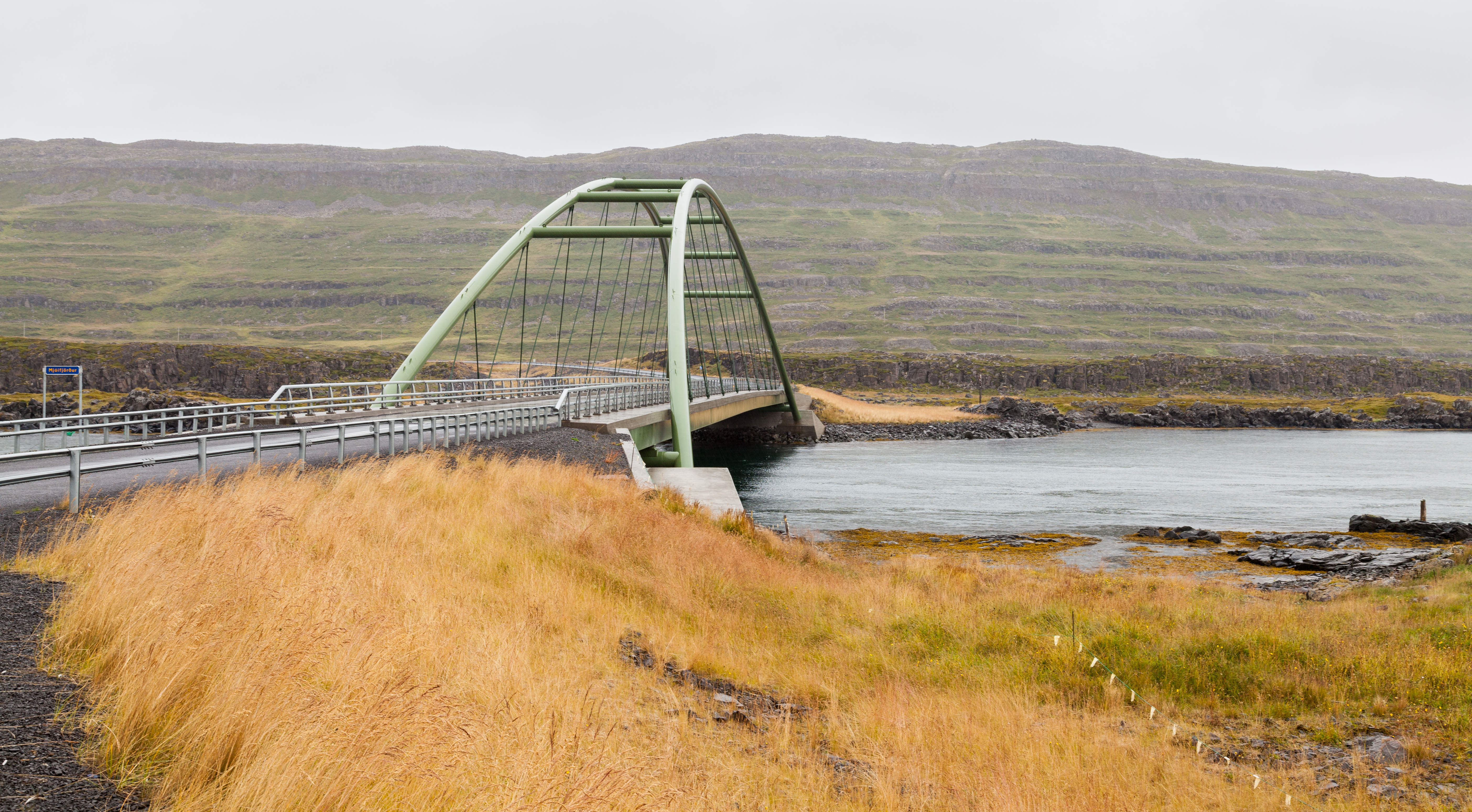 Mjóifjörður, Vestfirðir, Iceland